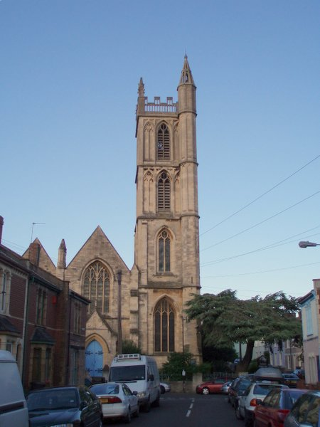 Lynmouth Road, Bristol, looking toward the former St Werburgh's parish church